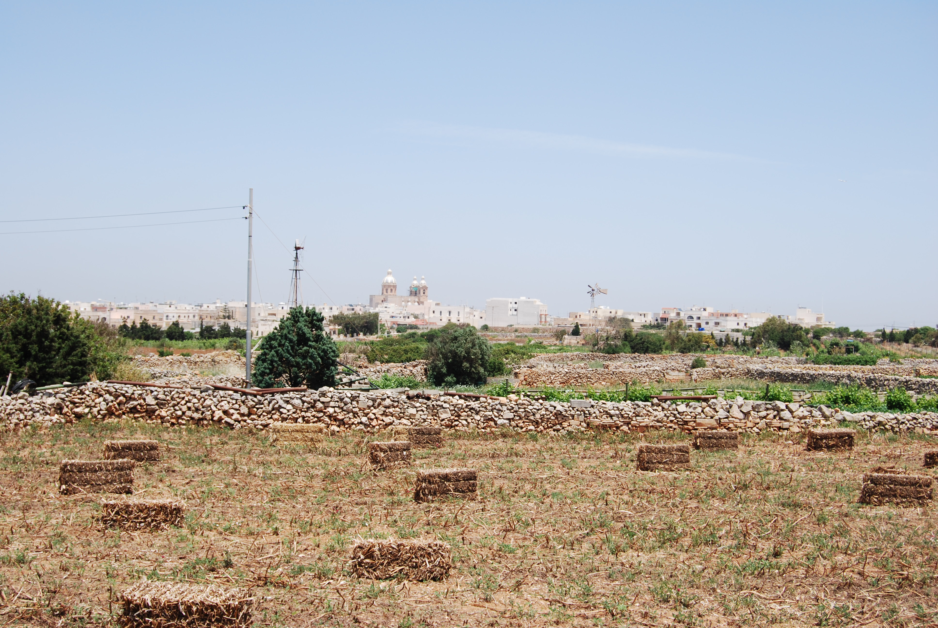 The village of Dingli, Malta.